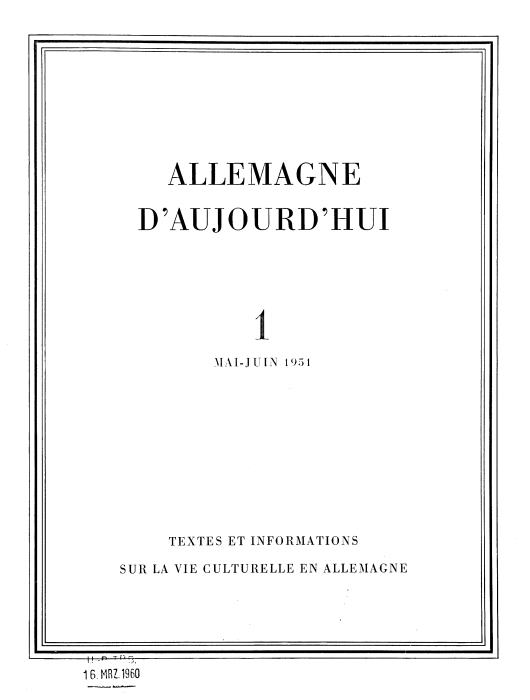 Allemagne d'aujourd'hui - Nouvelle série, No. 1, 1951